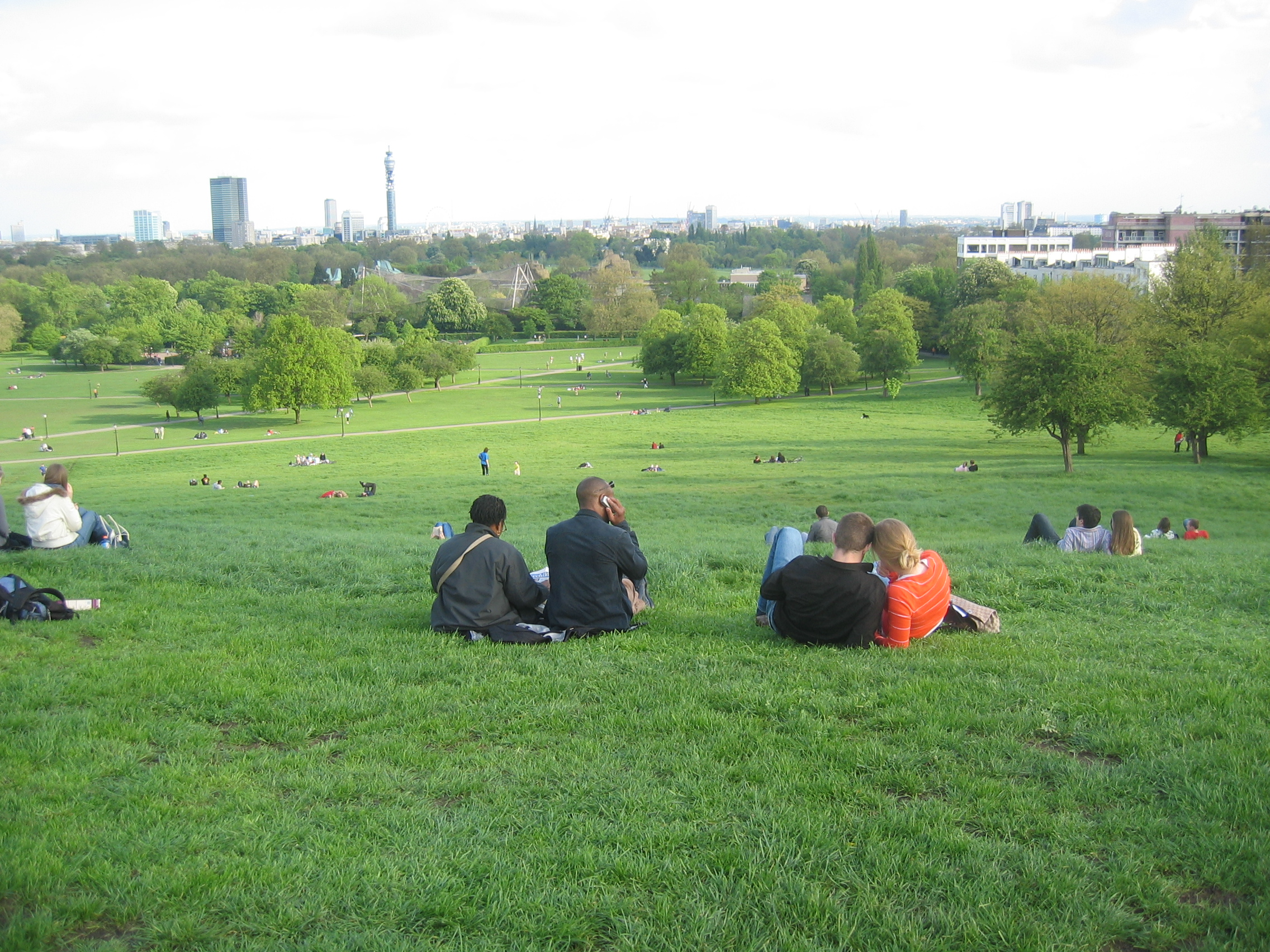 Primrose Hill London